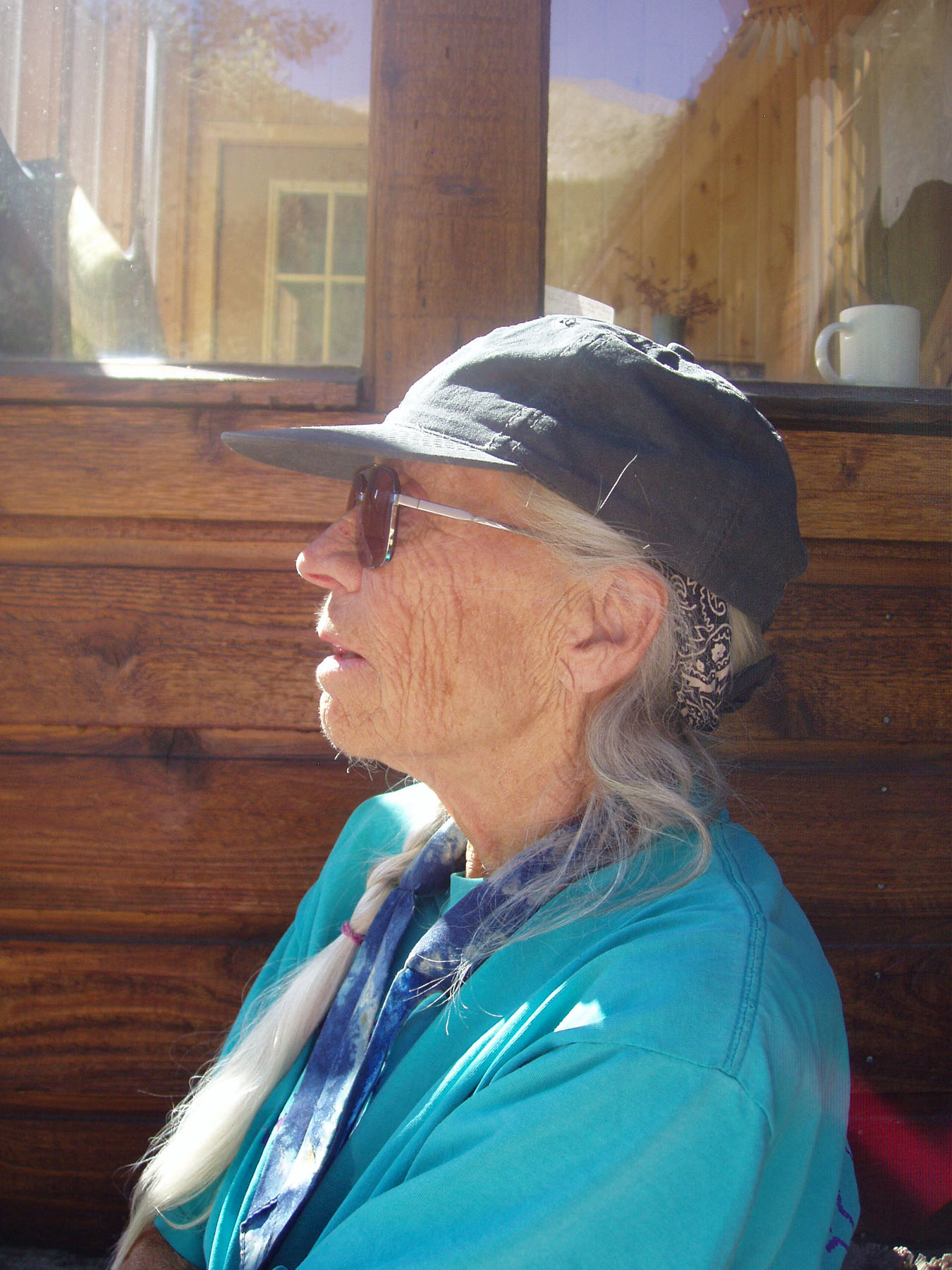 Mountaineer and author Dolores LaChapelle